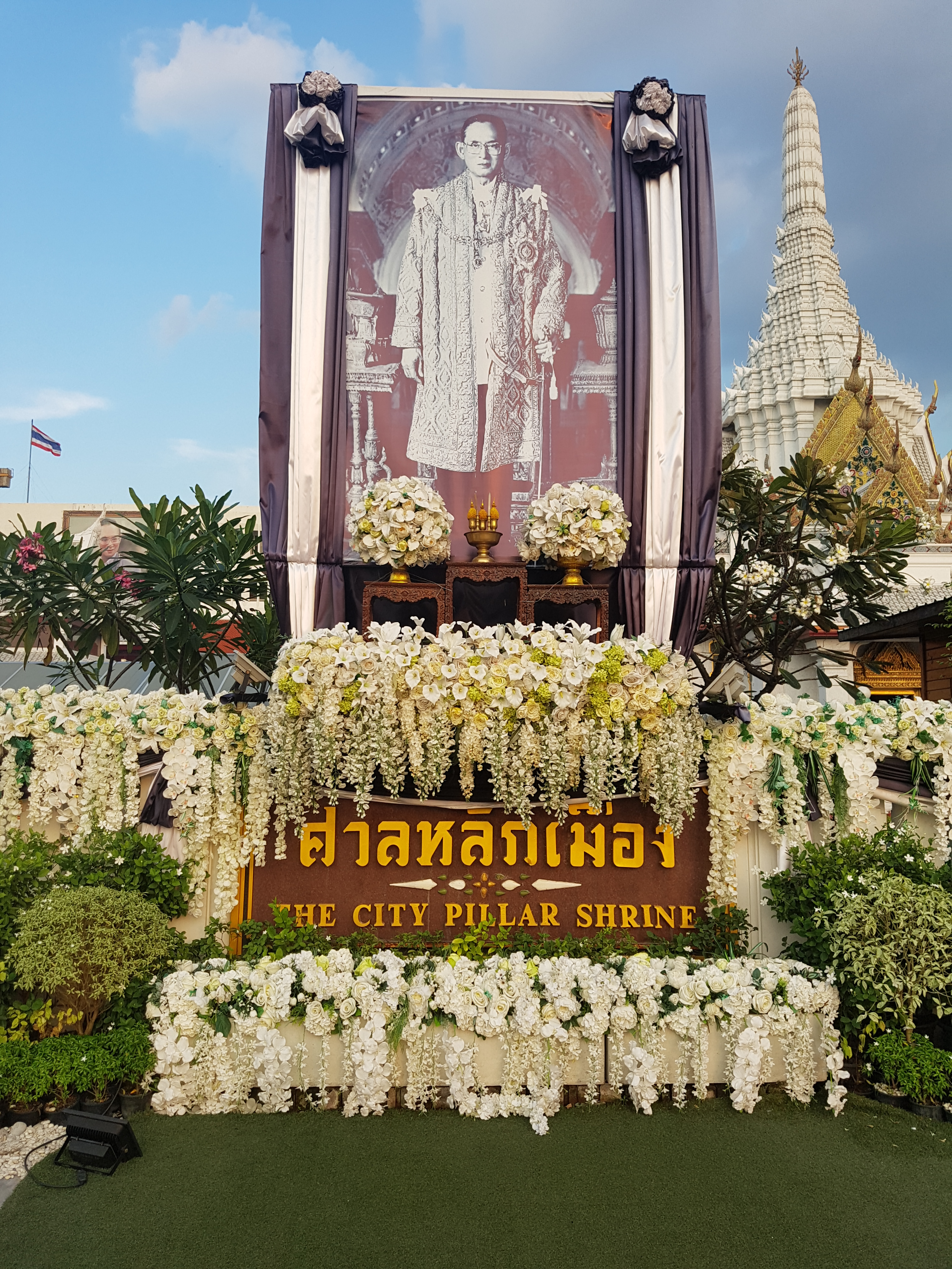 Bangkok City Pillar Shrine, Lak Mueang Road, Phra Borom Maha Ratchawang Subdistrict, Phra Nakhon District, Bangkok. 37″ N, 100° 29′ 41.84″ E